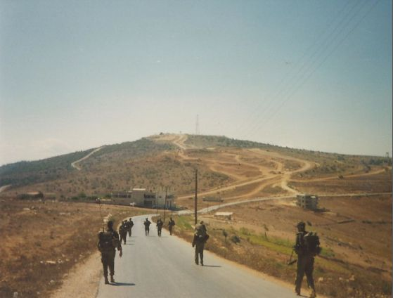 "פתיחת ציר " בדרום לבנון . האנטנה של מוצב ציפורן ברקע